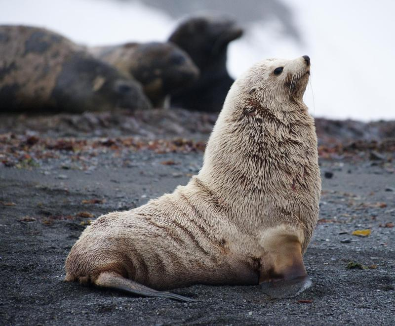 091130_rosita_bay_south_georgia_2563